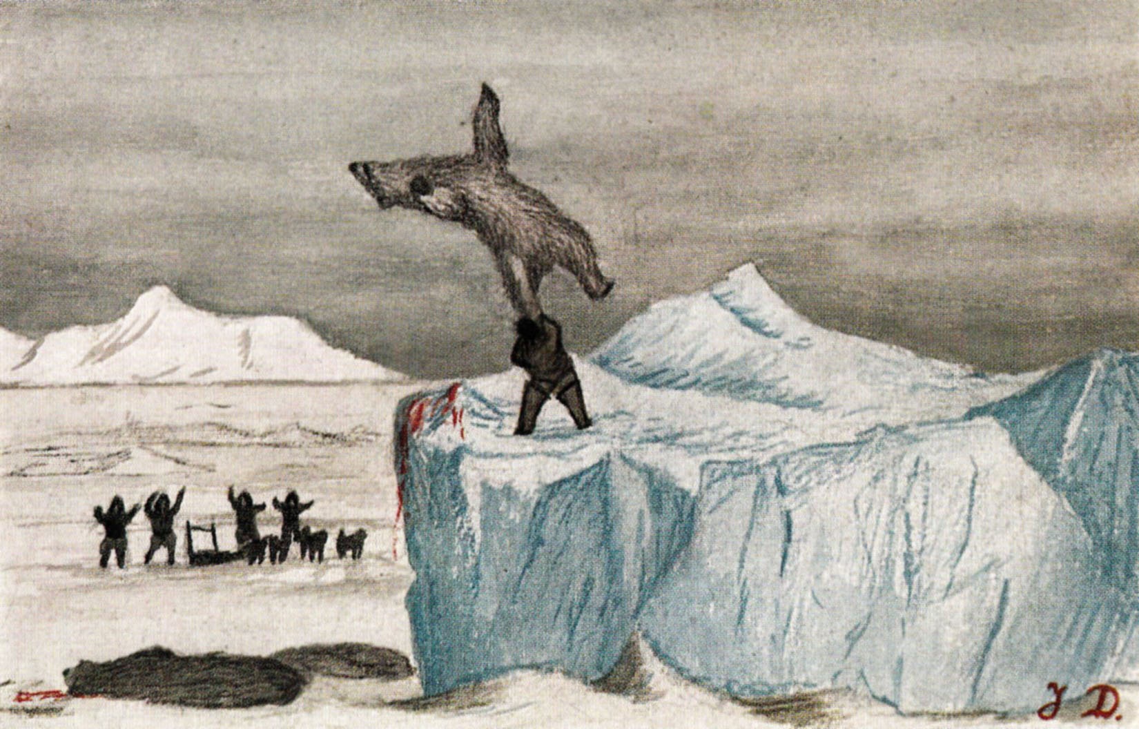 Jakob Danielsen - 08 Kaassassuk kills bears